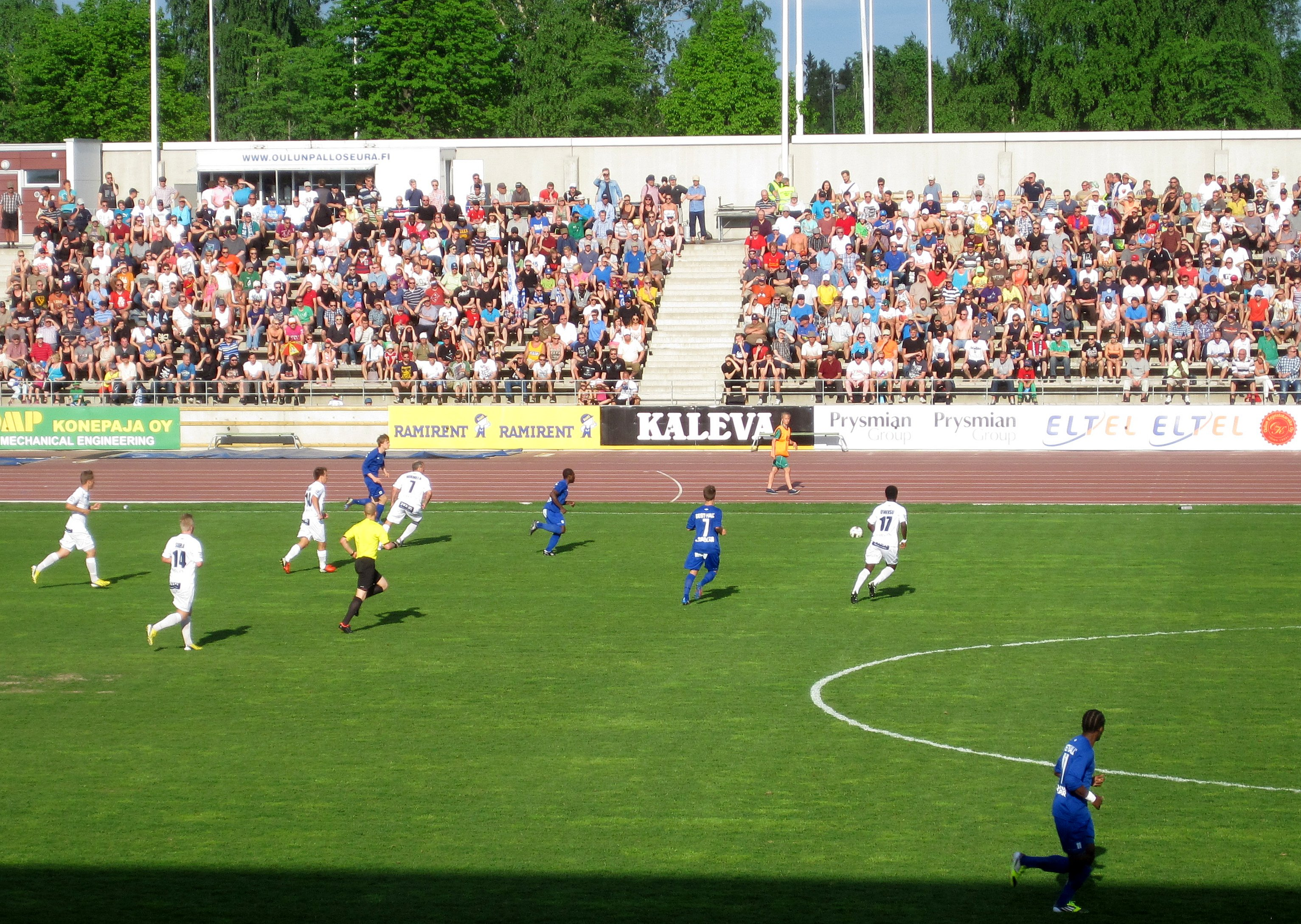 OPS vs AC Oulu football game at the Raatti Stadium in Oulu.